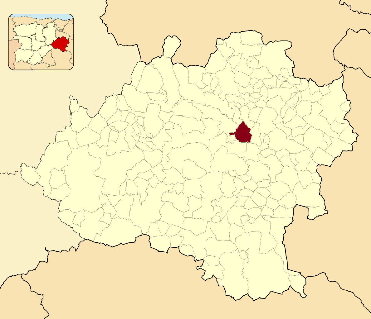 Location map of the municipality of Adradas in Province of Soria, Spain